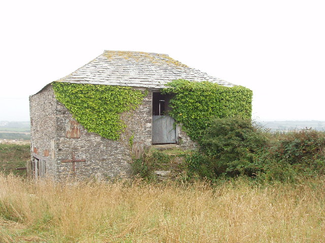 Field barn at Trethillick. This two storey stone barn with slate roof is in a field away from the main farm buildings. On this side there are steps up to a door at the upper level. On the left is a low door to the lower level. On the side away from us, there are small doors high up, maybe used for loading from a wagon in the road alongside.